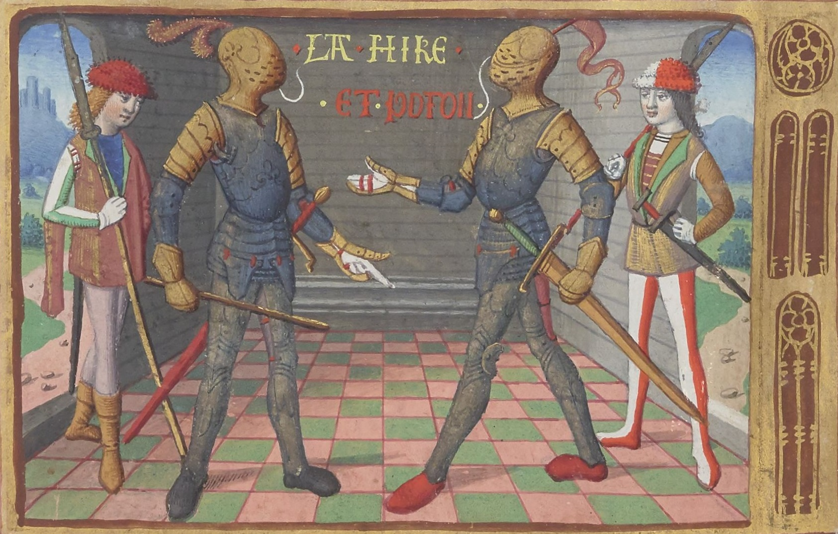 Jean Poton de Xaintrailles and Étienne de Vignolles, dit La Hire from a 15th century manuscript. Captains under Jeanne d'Arc, Estienne & Poton de Xaintrailles. Miniature from the Vigiles du roi Charles VII.